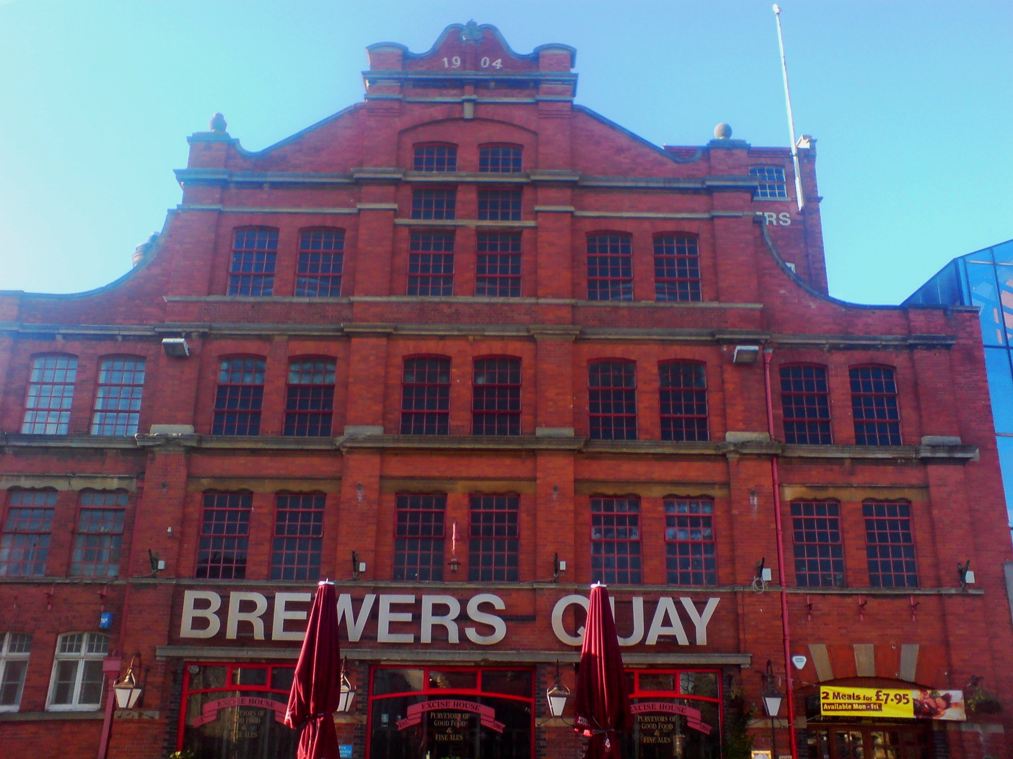 Brewer's Quay, Weymouth, Dorset